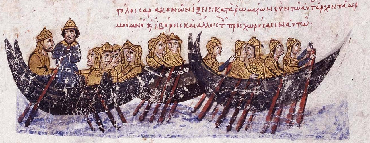 Depiction of the Saracen fleet sailing towards Crete in the 820s. From the Madrid Skylitzes. Fol. 38v